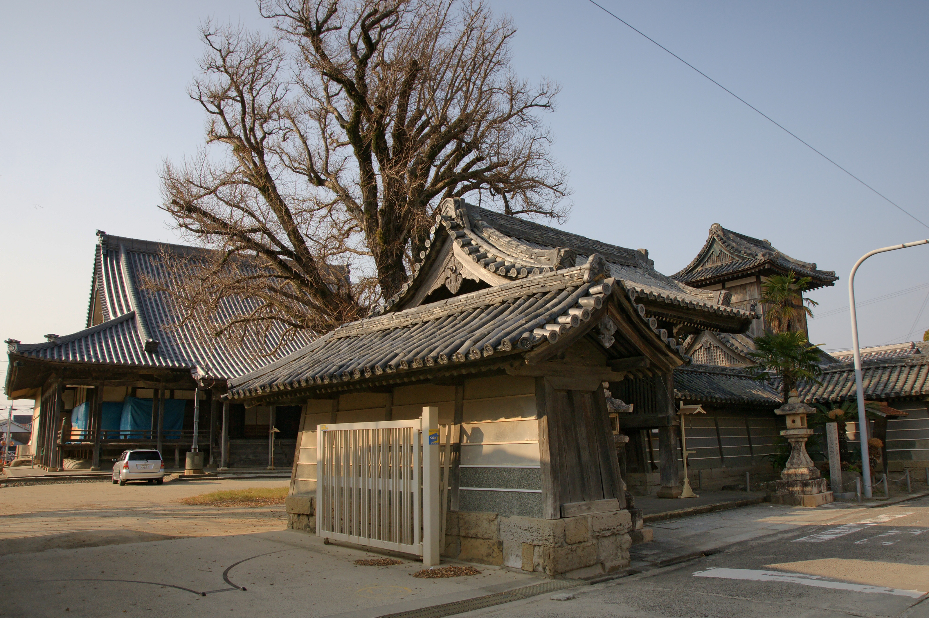 Honganji Hidaka-betsuin, Gobo, Wakayama prefecture, Japan